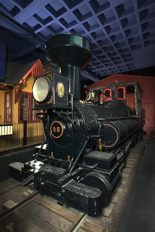 The Reuben Wells steam locomotive is within the permanent collection of The Children’s Museum of Indianapolis